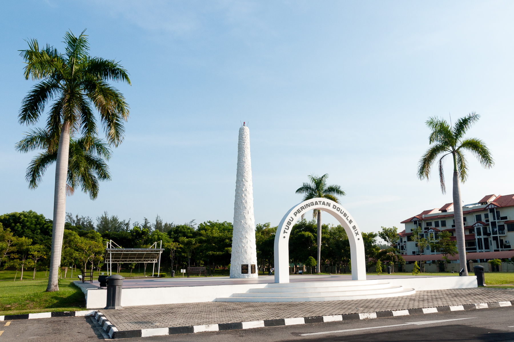 Double Six Monument (Tugu Peringatan Double Six) in Sembulan, Kota Kinabalu